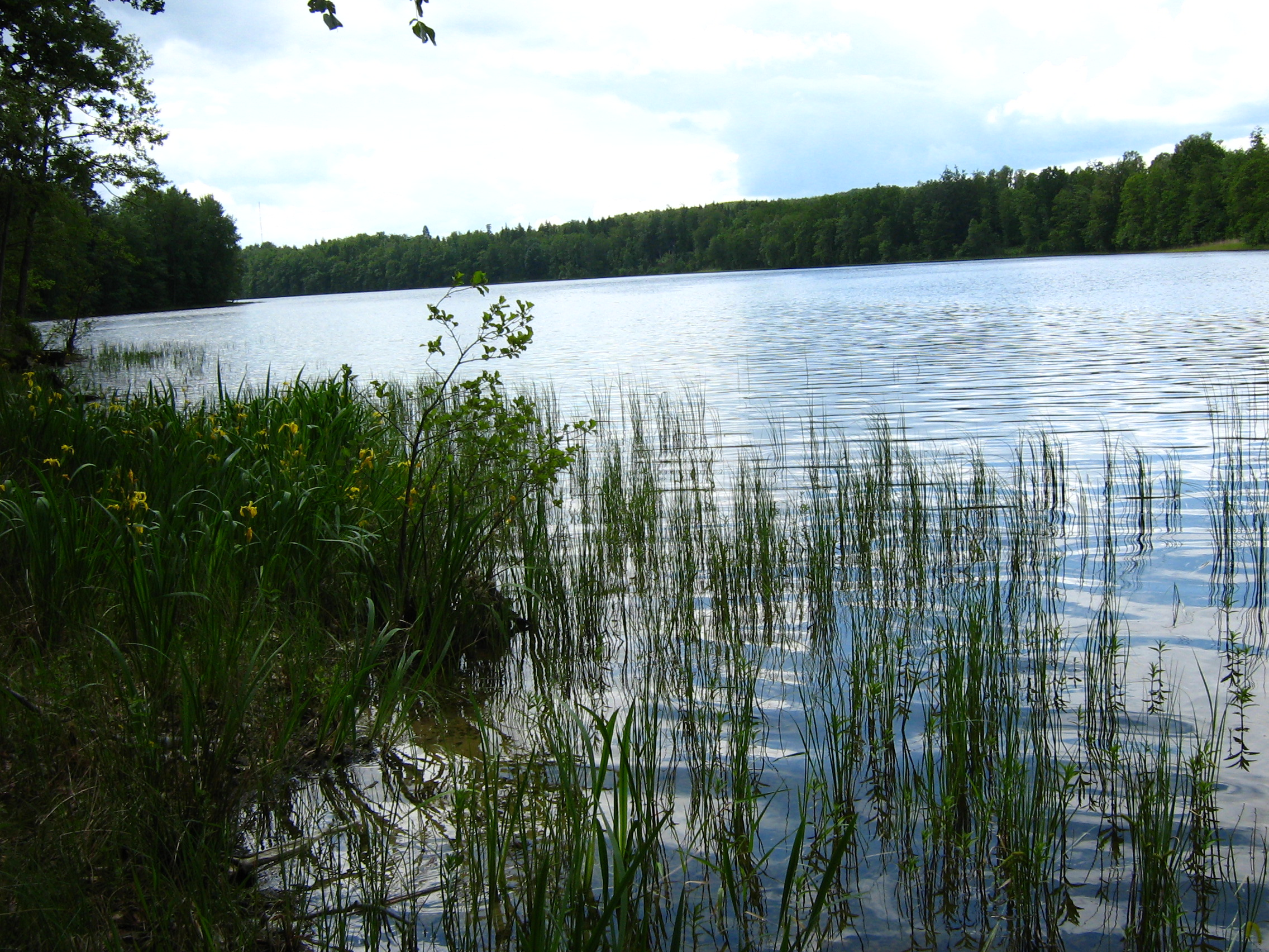 Bobięcińskie Wielkie Lake, Northern Poland